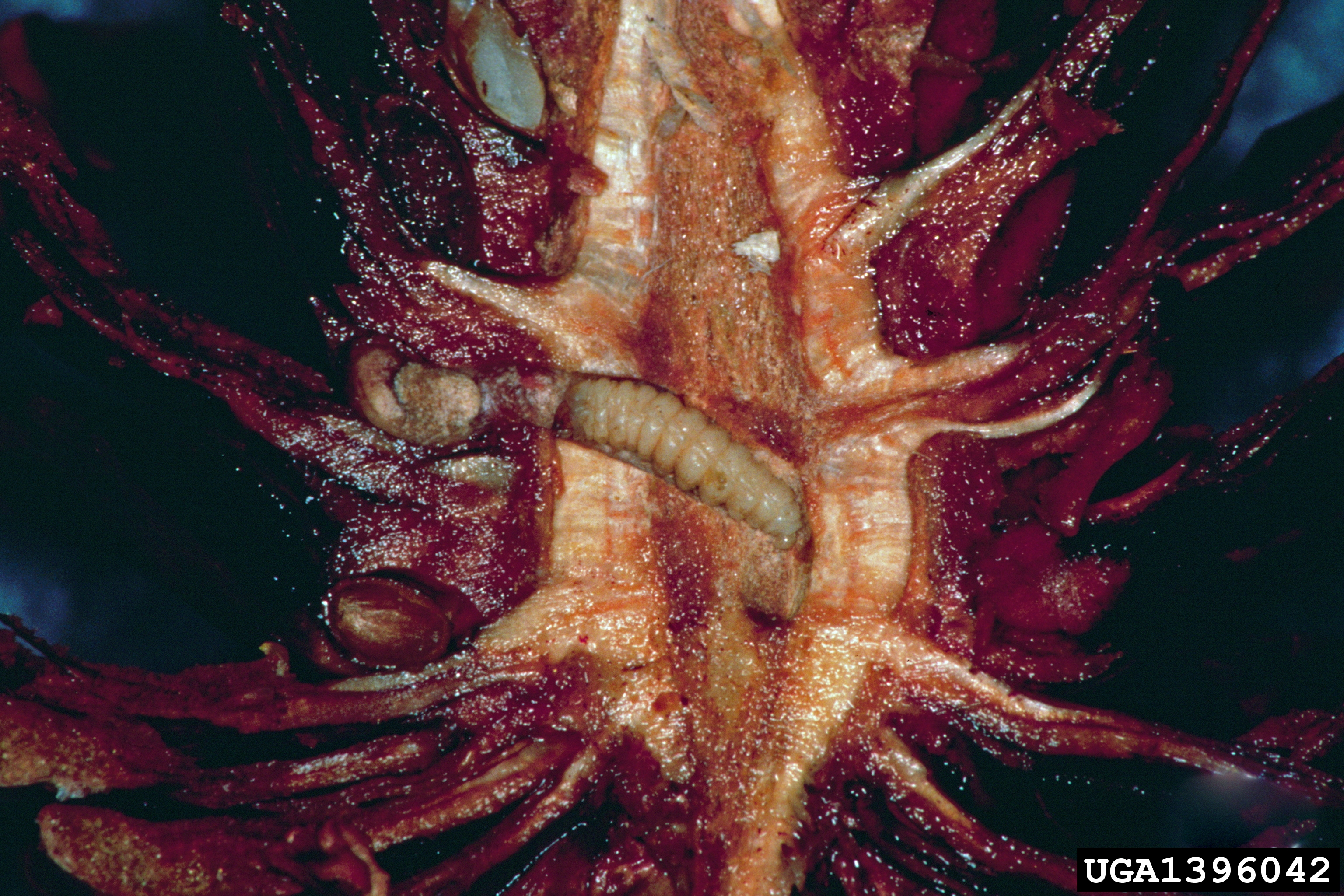 Cydia_toreuta larva